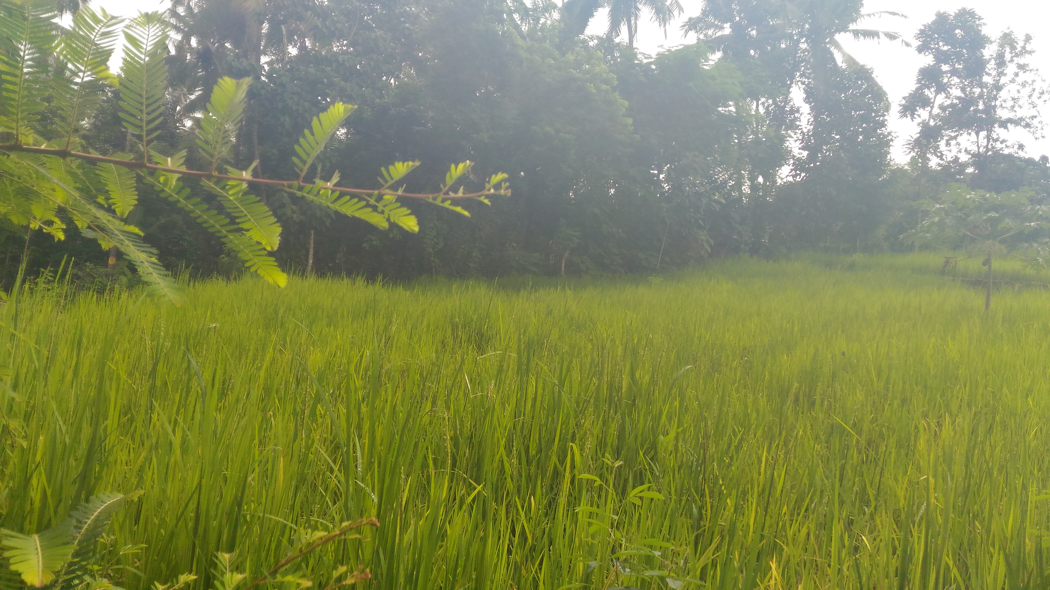 Punam krishi_Dry land Paddy field